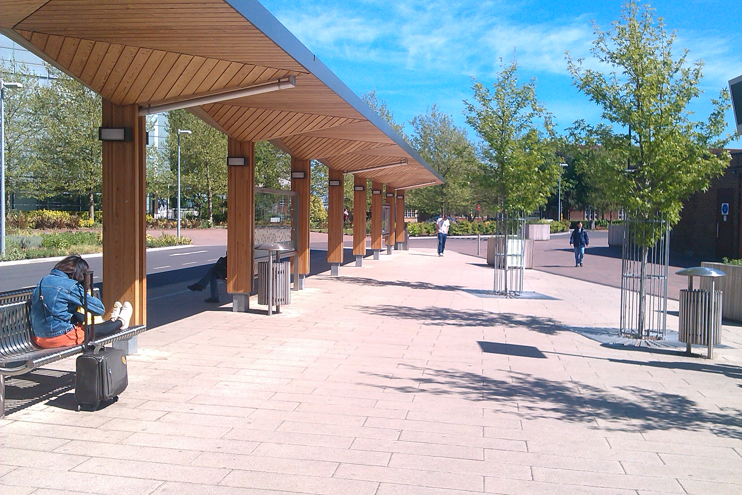 The Uni-link interchange on the University of Southampton's Highfield campus, taken on 27 May 2013.